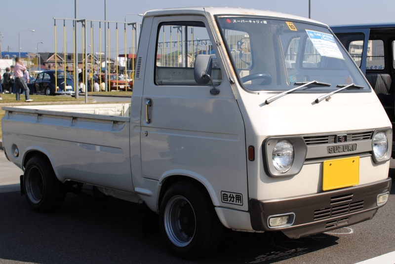 Suzuki Carry.